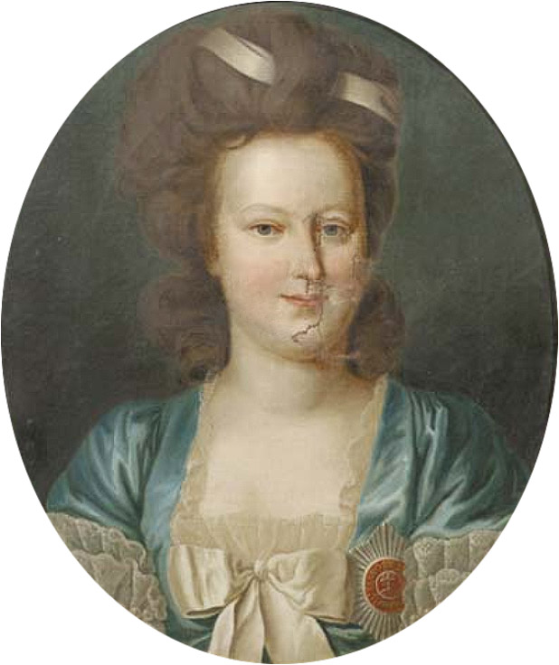 Portrait of Caroline of Hesse-Darmstadt (1746-1821), wife of Frederick V, Landgrave of Hesse-Homburg